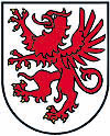 Coat of arms of Leonding, Upper Austria